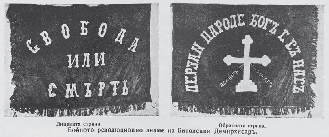 Battle flag of Ilinden insurgents in Bitola Demirhisar